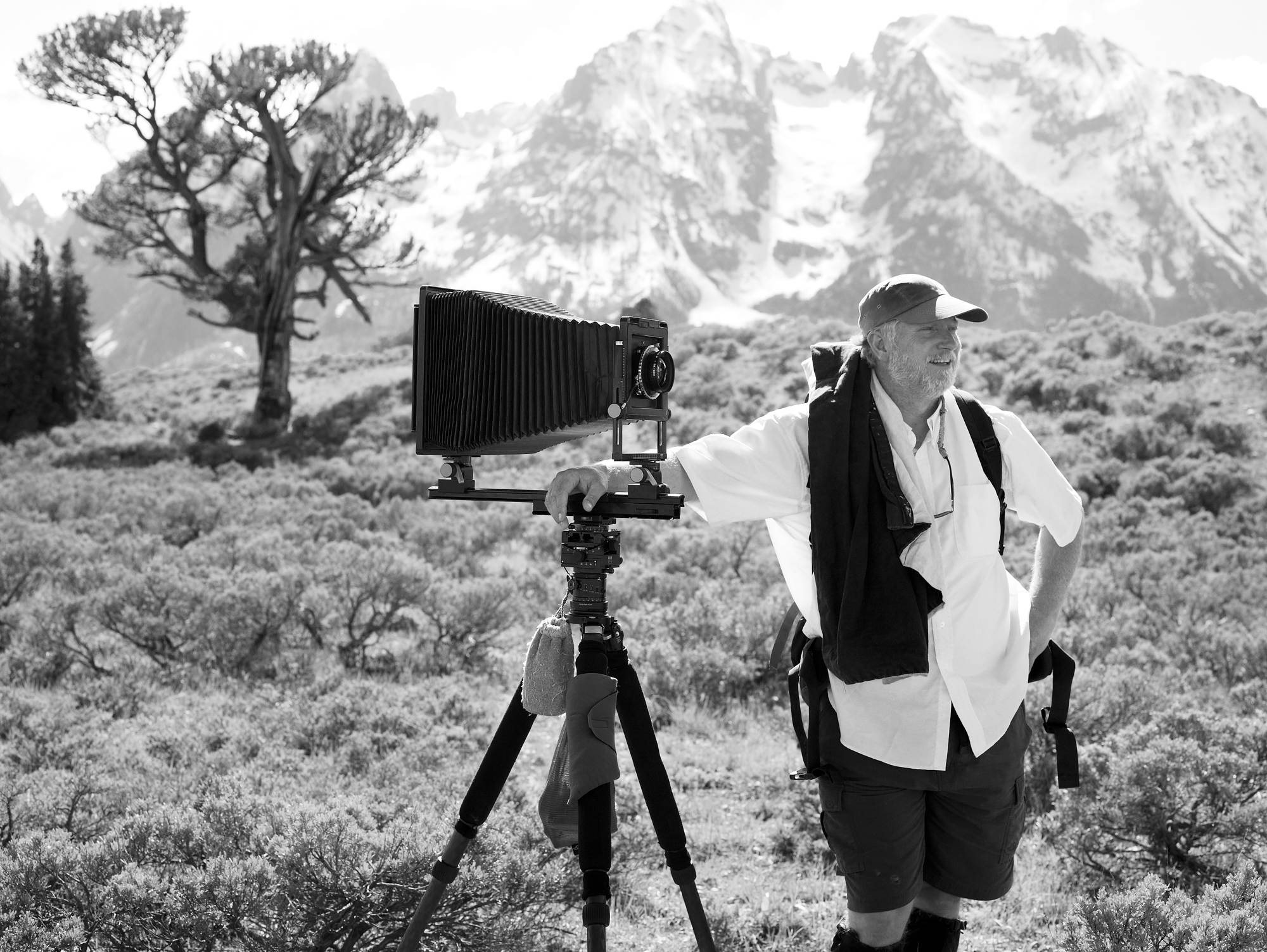 Master Wilderness Photographer Rodney Lough Jr. giving a workshop at Grand Teton National Park